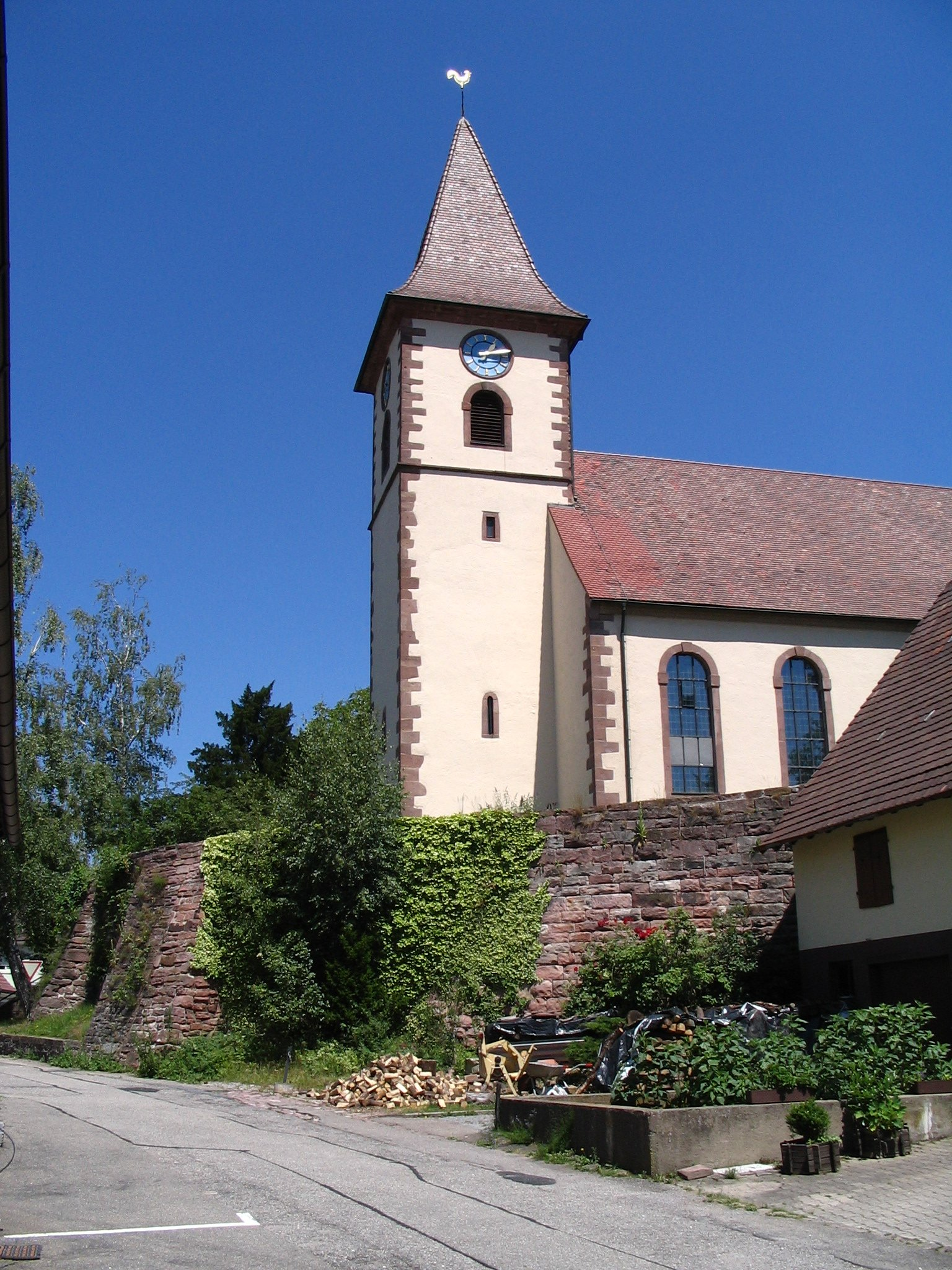 Stephanskirche (church) in Straubenhardt